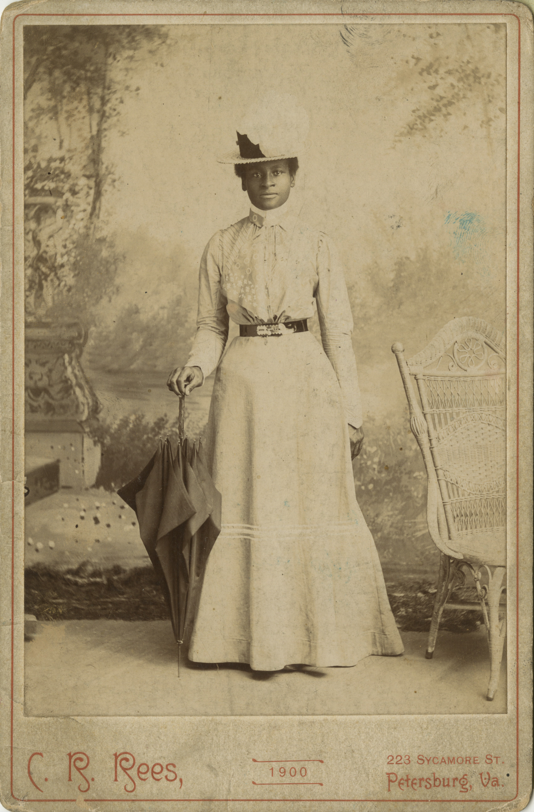 Mary Bowser. This is Not the same Mary Bowser covered by our Mary Bowser article.